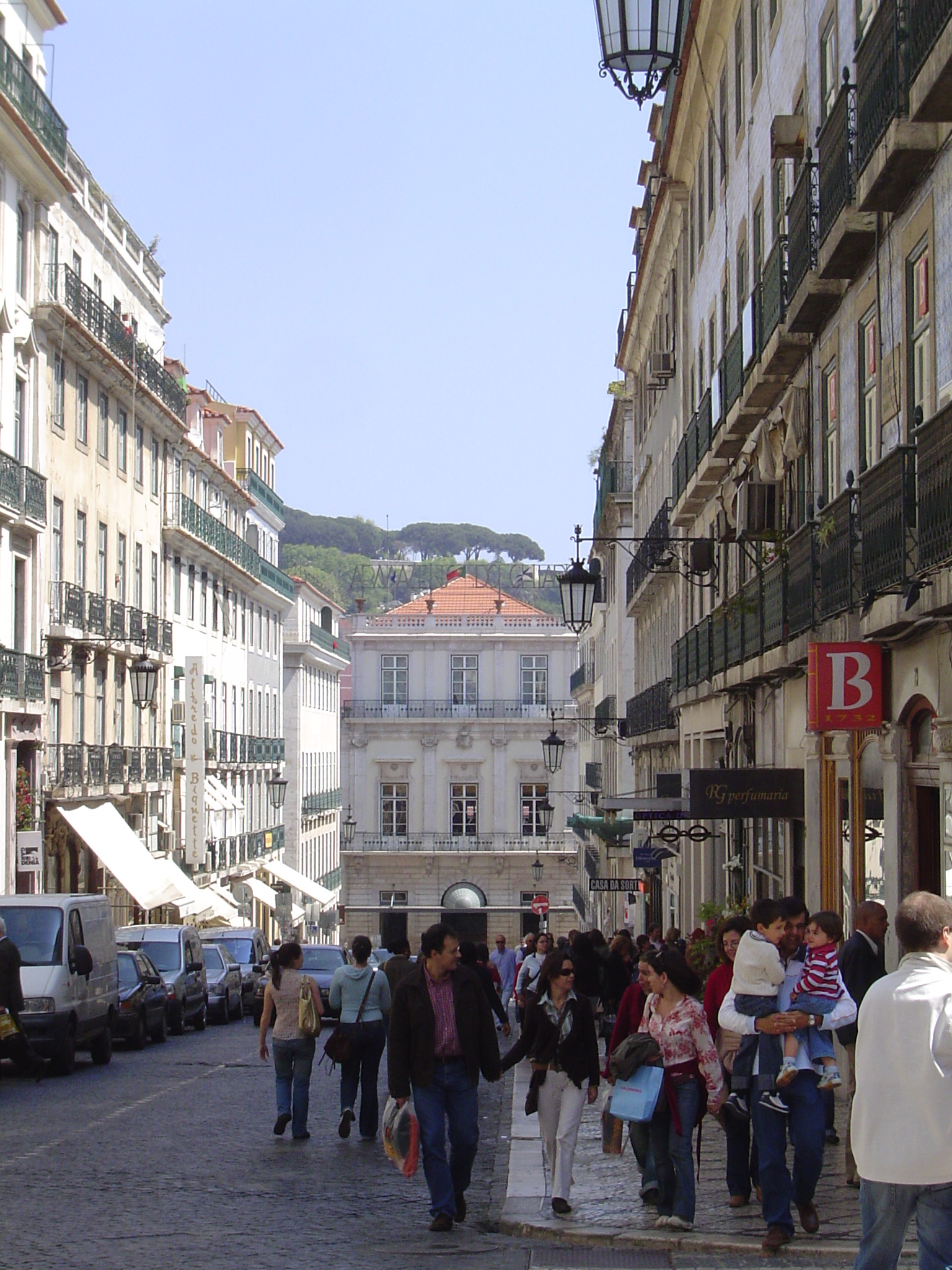 View of Garrett Street in the Chiado, Lisbon, Portugal